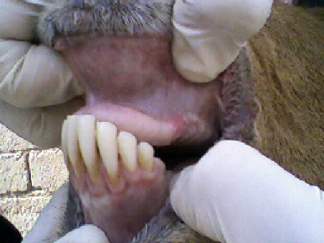 Veterinarian examines the mouth of a sheep